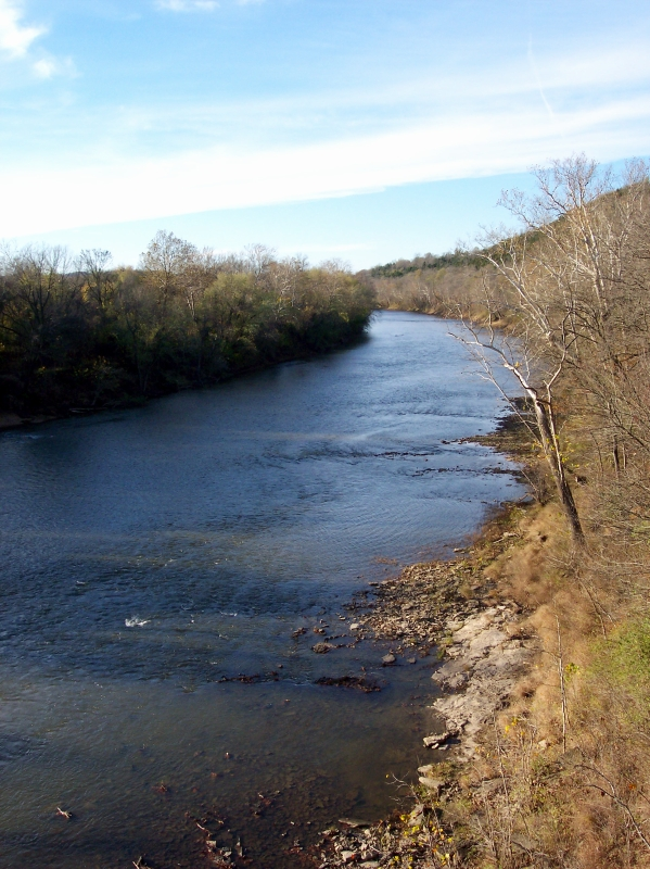 This is a picture of the Meramec River as it flows past Route 66 State Park in St. Louis County, Missouri.